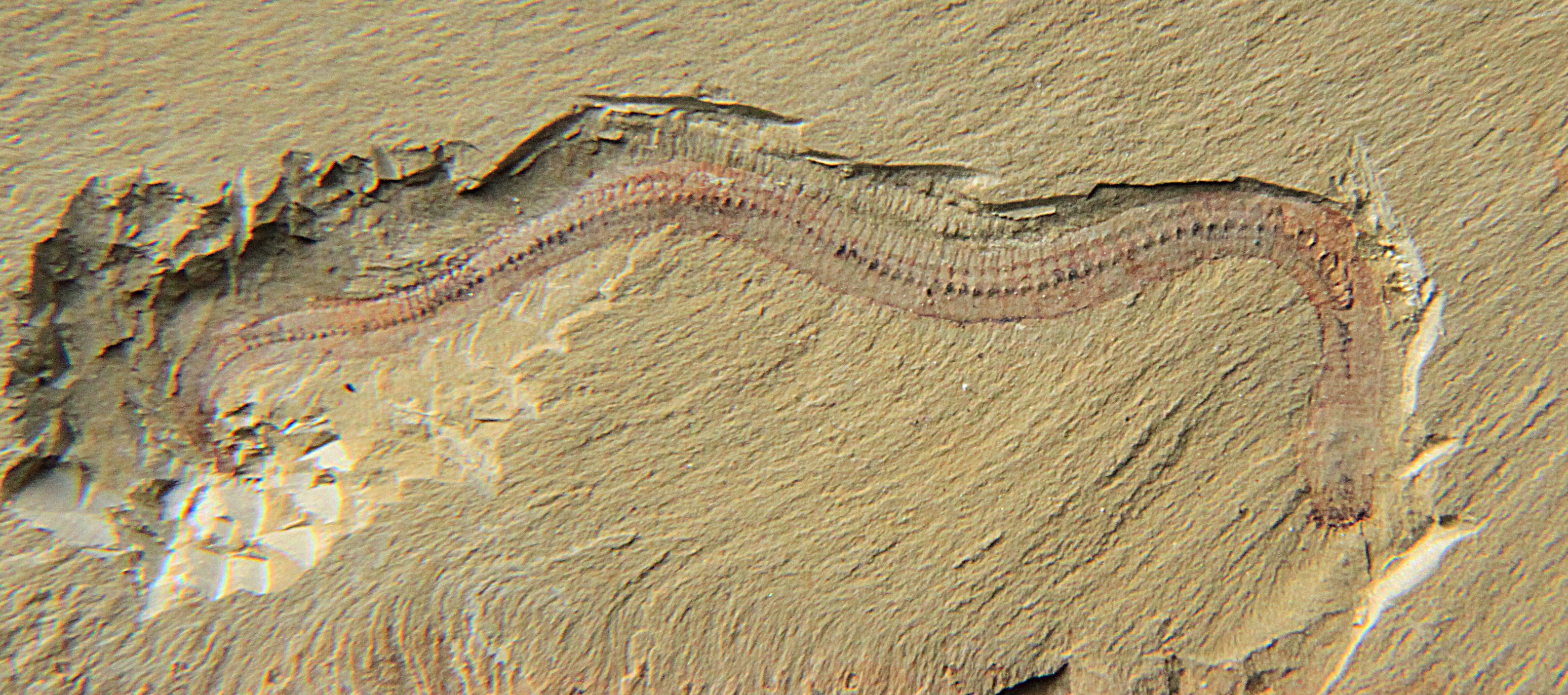 A Maotianshania cyliindrica fossil hairworm, 48 mm along its length, Phylum Nematomorpha, Class Palaeoscolecida, Family Maotianshaniidae, from the Cheng Jiang Mao Tian Shan Shales, Quiongzhusi Section, Yu'anshan Member, Heilinpu Formation, HaiKou village (24.8° N, 102.6° E), Yunnan Province, China, from the Lower Cambrian (Atdabanian), approximately 518 million years old.